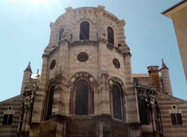 Abside of the cathedral Notre-Dame-and-St-Anoux of Gap, in Hautes-Alpes (France)